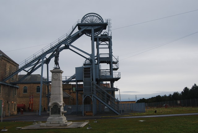 Memorial and pit head, Woodhorn The Woodhorn pit disaster happened on 13 August 1916 when 13 men died, the youngest was 21, the oldest 48. Reason for the disaster was a build up of gases, then ingnited by a naked flame. The Durham Mining Museum website says 'there can be no doubt that this loss would not have occurred if the officials concerned had made a proper examination before commencing work. Had they done so they would have discovered the presence of inflammable gas, or would have noticed that there was not a ventilating current sufficient to carry away any firedamp that might be given off.'